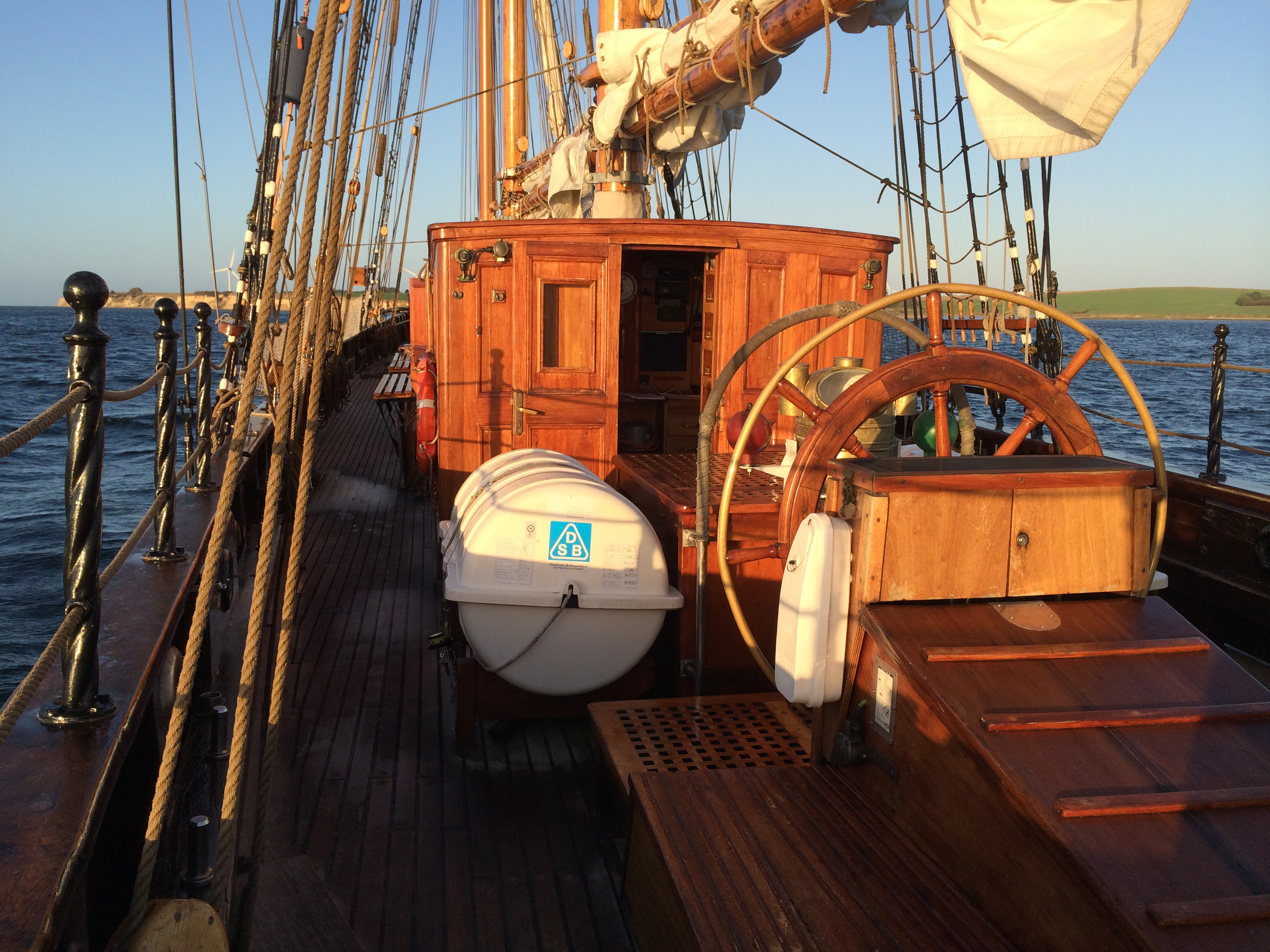 three-masted schooner Amphitrite